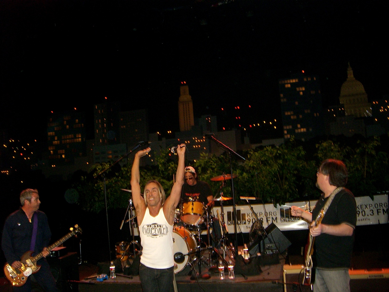 The Stooges in un concerto all' Austin city limits